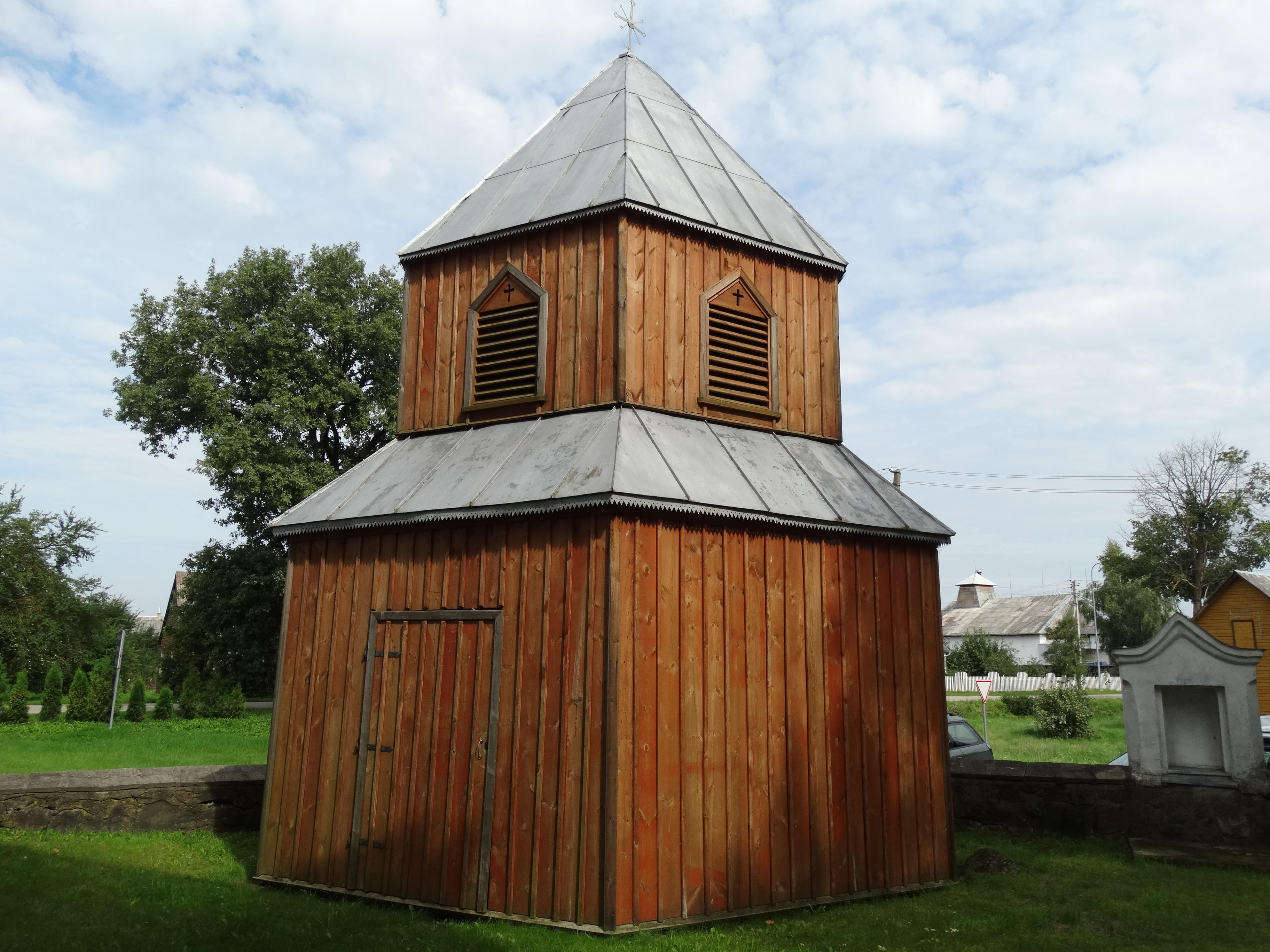 Belfry, Juodaičiai, Jurbarkas district Lithuania